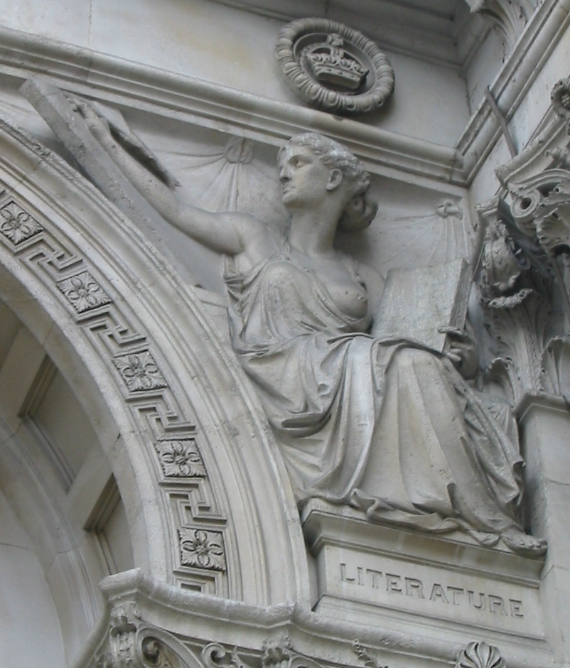 London